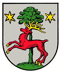 Coat of arms of Oberwiesen